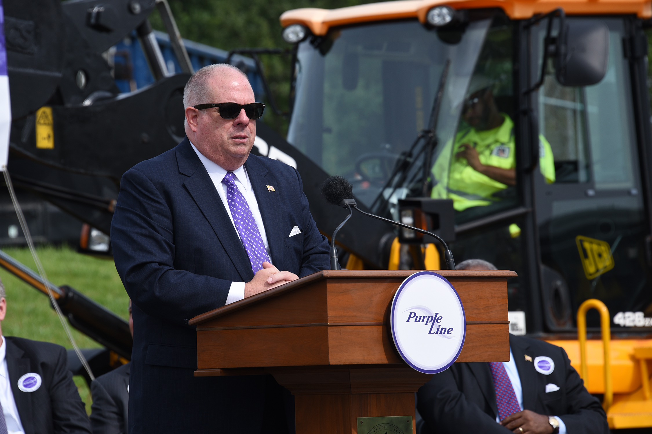 Governor Hogan Signs Agreement With U.S. DOT for the Purple Line by Steve Kwak at 4800 Veterans Pkwy. Hyattsville MD 20784